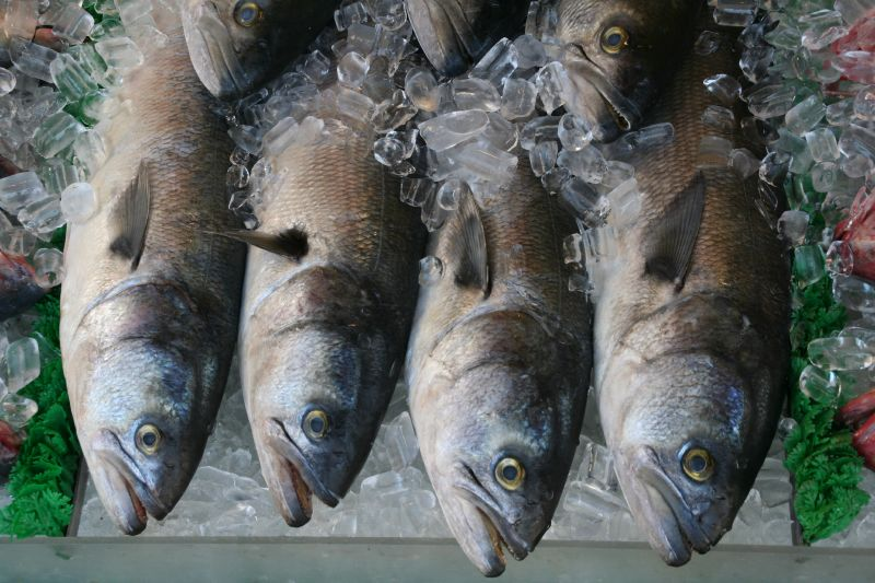 Fish for sale at the Maine Avenue Fish Market in Washington, D.C.